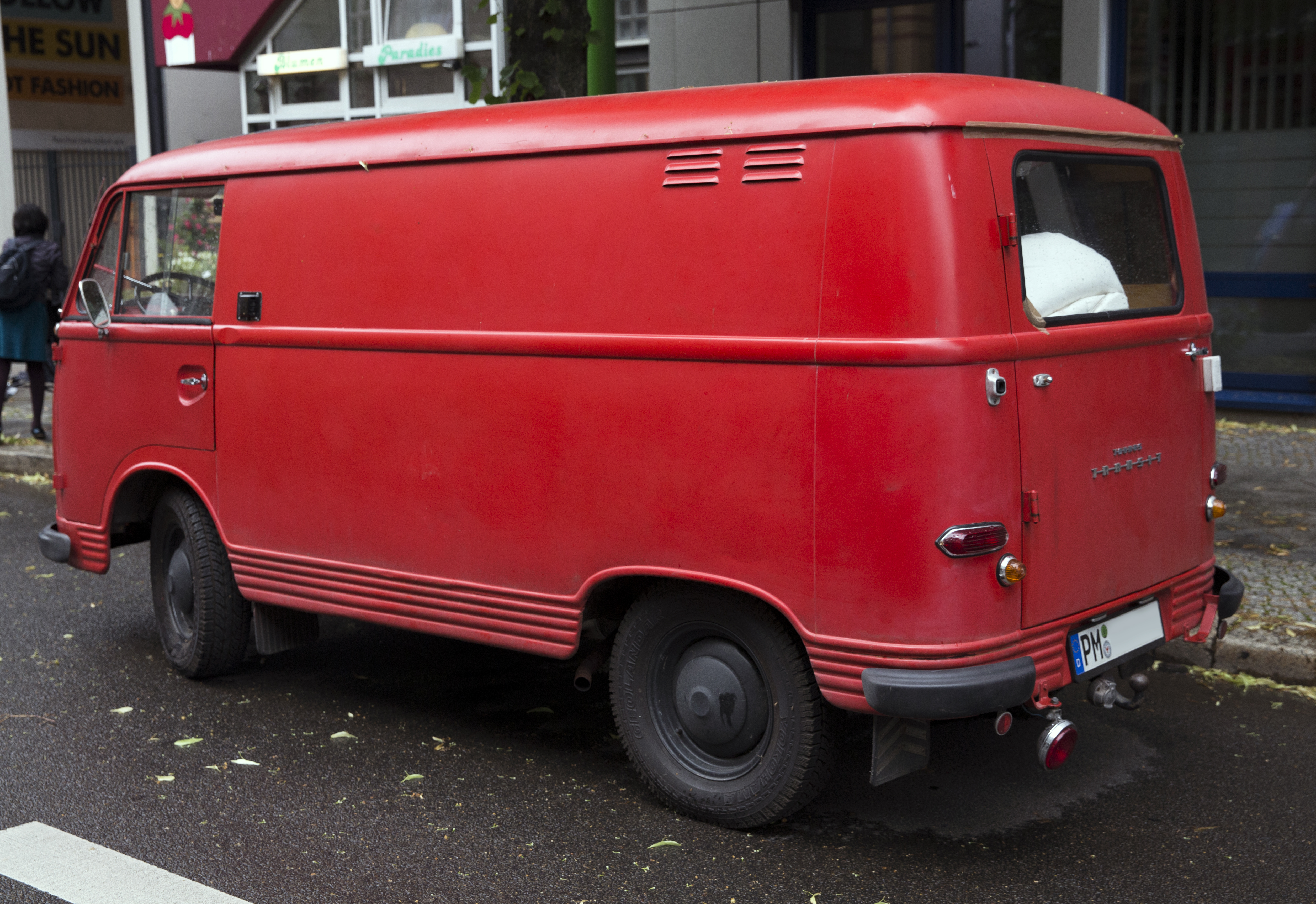 A 1965 Ford Taunus Transit in Berlin, near Checkpoint Charlie.